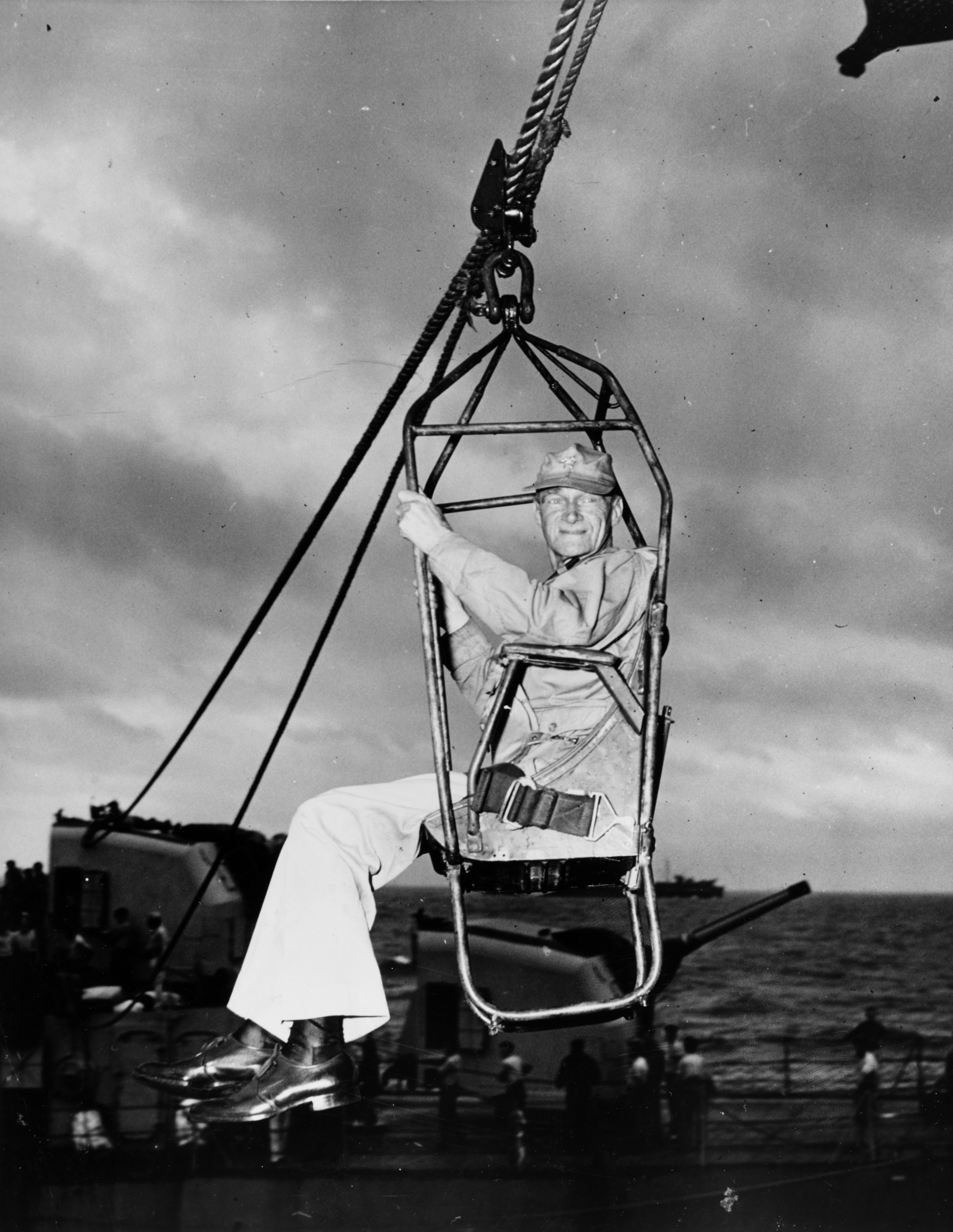 Vice Admiral Marc A. Mitscher, U.S. Navy, Commander, Task Force 58, is highlined from a destroyer to the aircraft carrier USS Randolph (CV-15) via boatswain's chair, 15 May 1945. This was the third time he had transferred his flag in four days, as his two previous flagships, USS Bunker Hill (CV-17) and USS Enterprise (CV-6) had both been badly damaged by Kamikaze hits off Okinawa.